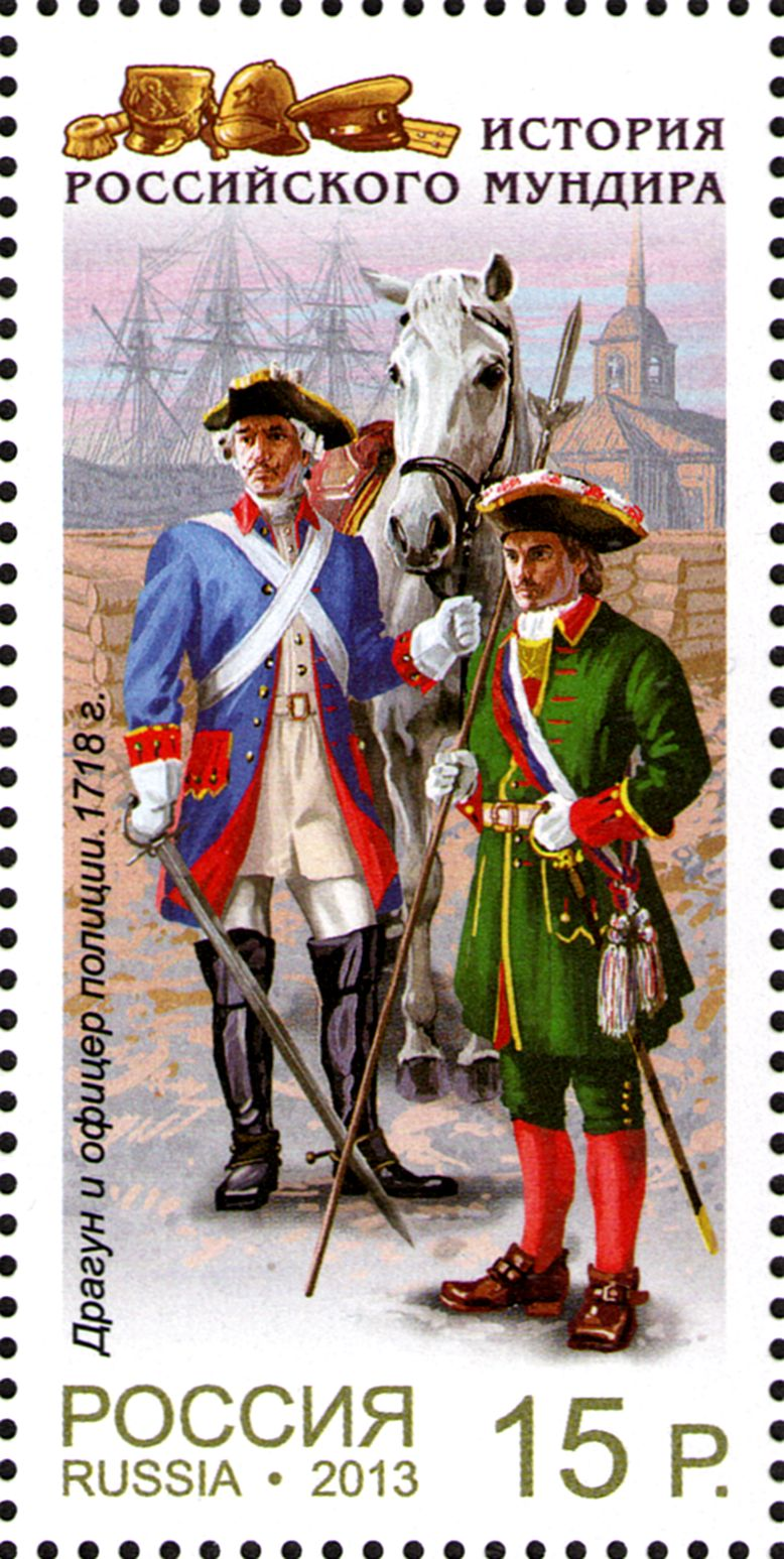 The History of the Russian Uniform (the ongoing series, issue I). The Ministry of Internal Affairs. A dragoon (on the left) and an officer of the police. 1718. The stamp of Russia, 15.00 Rubles, 8 November 2013, PTC Marka Catalogue No 1747, Michel No 1979. Coated paper. Offset printing. Perforation: comb 12×12. Size of the stamp: 32.5×65 mm. Print run: 320,000.